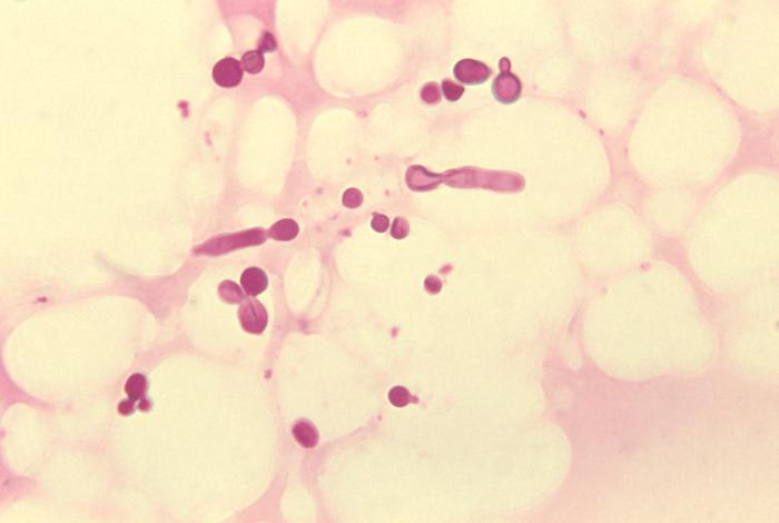 ID#: 3938 Description: Note the yeast-like fungal cells and short hyphae of M. furfur in skin scale from a patient with tinea versicolor. Usually Malassezia furfur grows sparsely without causing a rash. In some individuals, it grows more actively for reasons unknown, resulting in pale brown flaky patches on the trunk, neck, or arms, a condition called tinea versicolor. Content Providers(s): CDC/Dr. Lucille K. George Creation Date: 1964 Copyright Restrictions: None - This image is in the public domain and thus free of any copyright restrictions. As a matter of courtesy we request that the content provider be credited and notified in any public or private usage of this image.